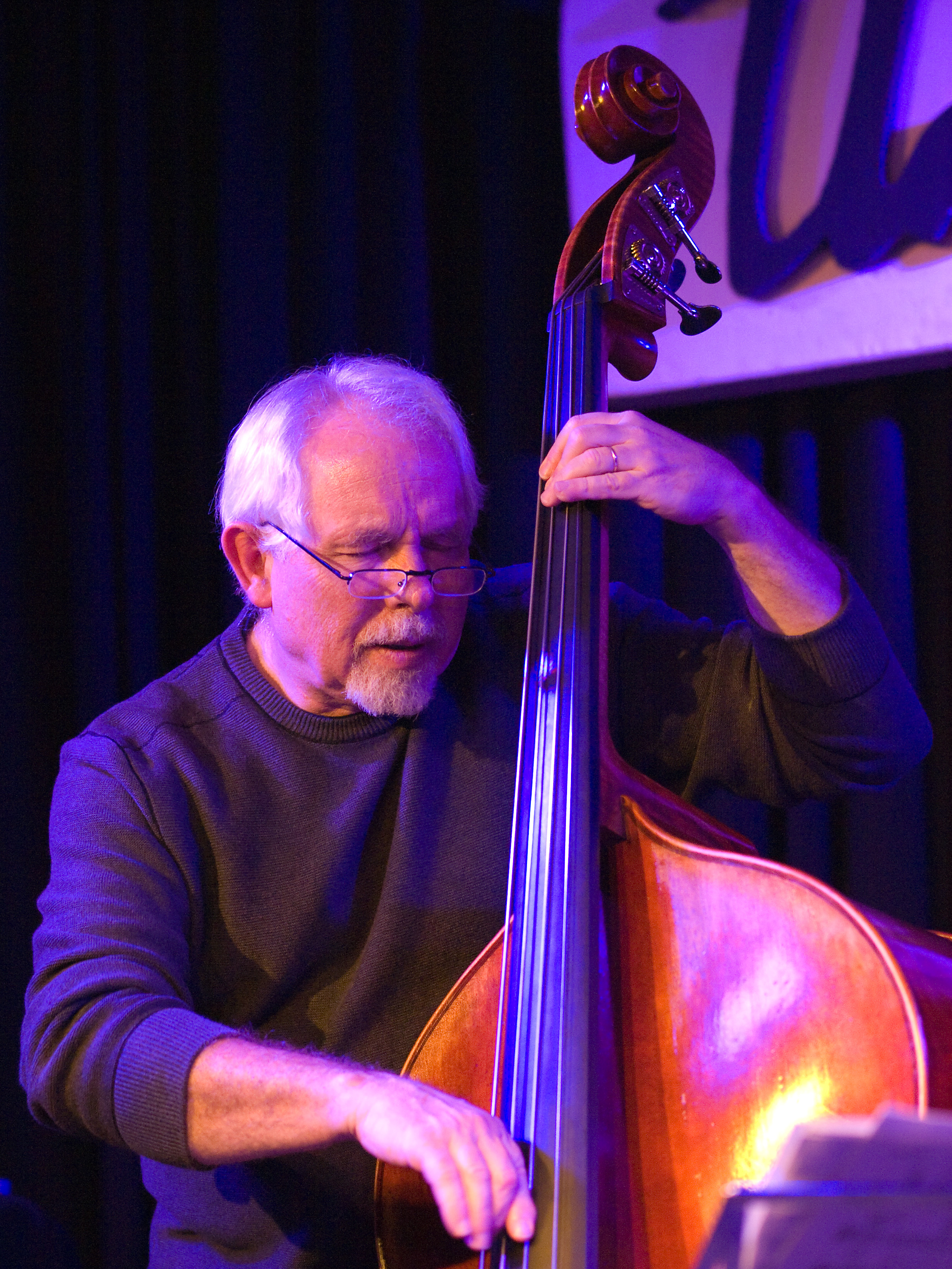 Cameron Brown, jazz bassist, picture taken in Jazz club "Unterfahrt" in Munich/Germany